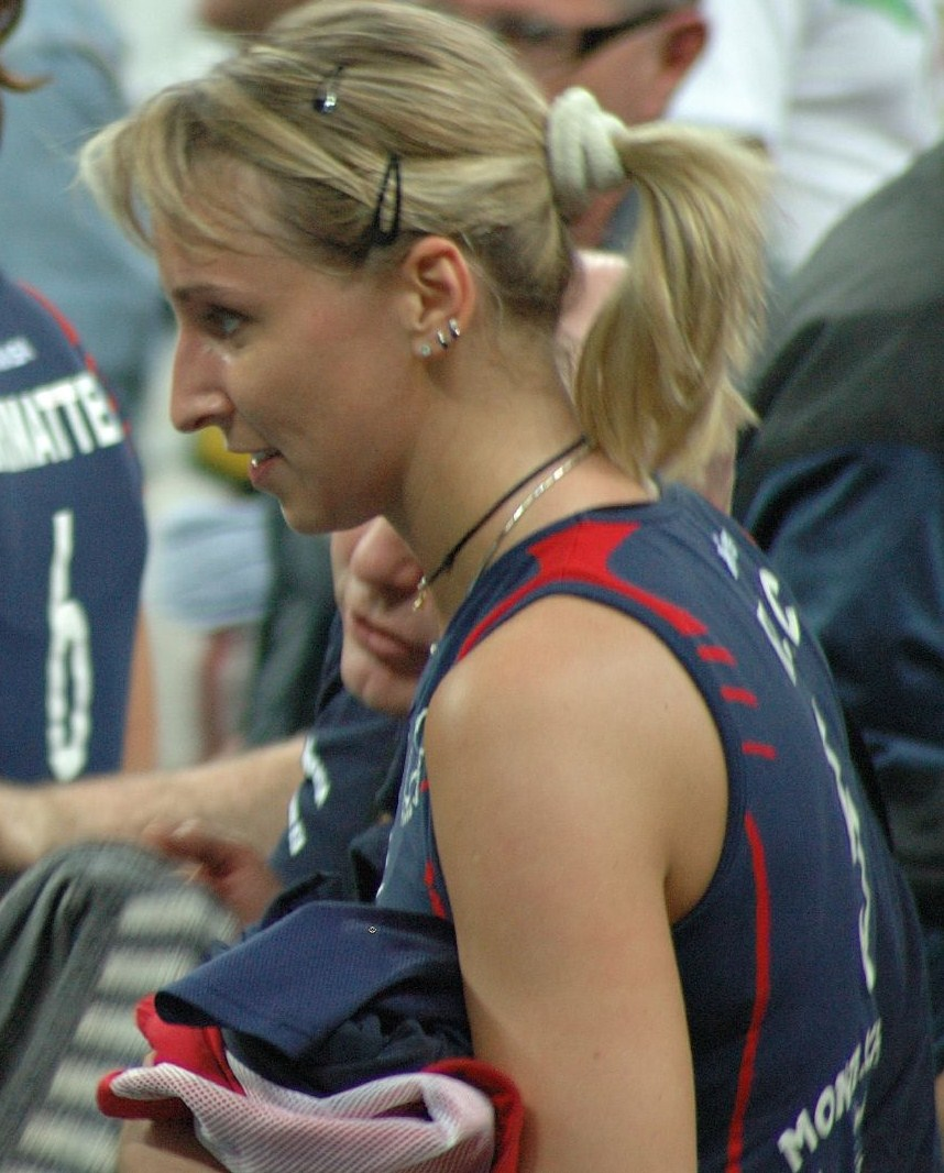 Russian volleyball player Lioubov Kılıç